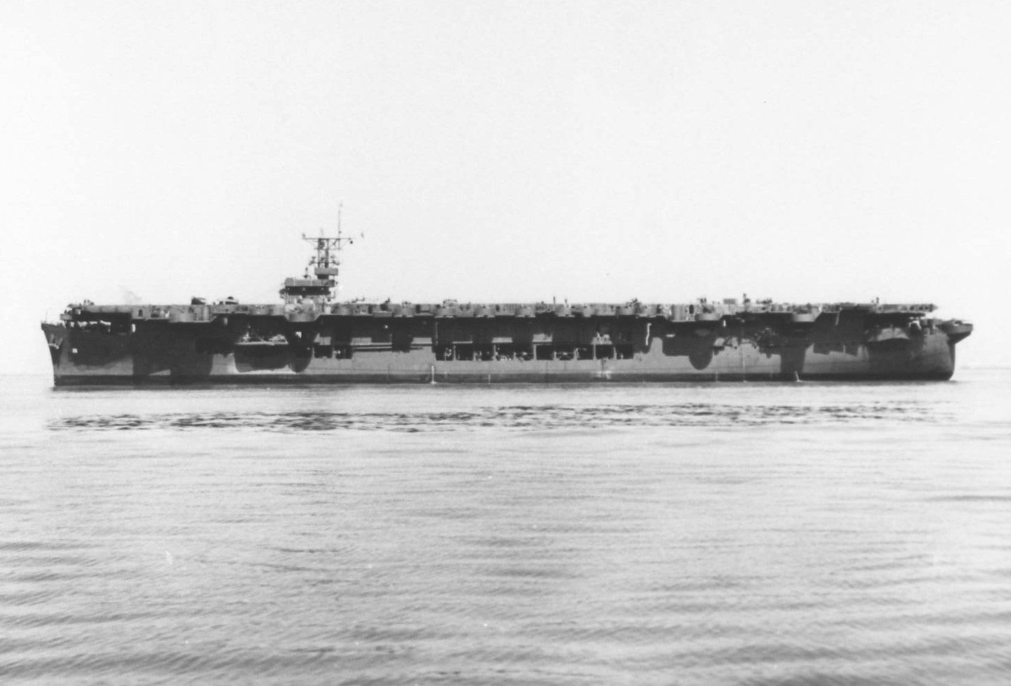 Broadside view of USS Chenango (CVE-28) off Mare Island Navy Yard, California (USA) on 22 September 1943. She was in overhaul at the yard from 21 August until 25 September 1943.